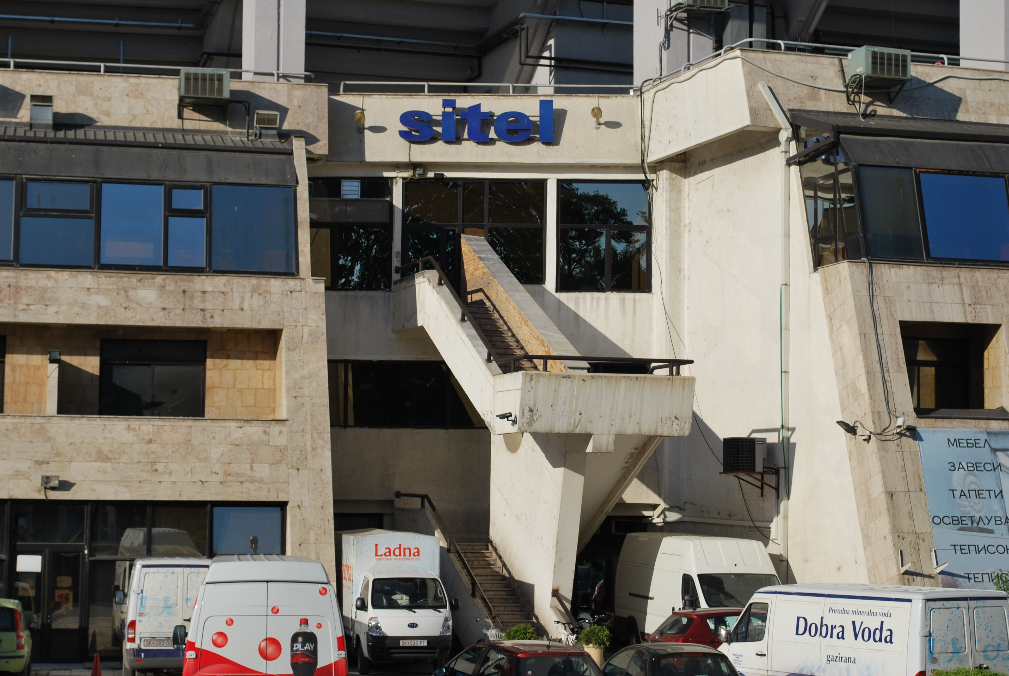 Skopje City Park, Macedonia